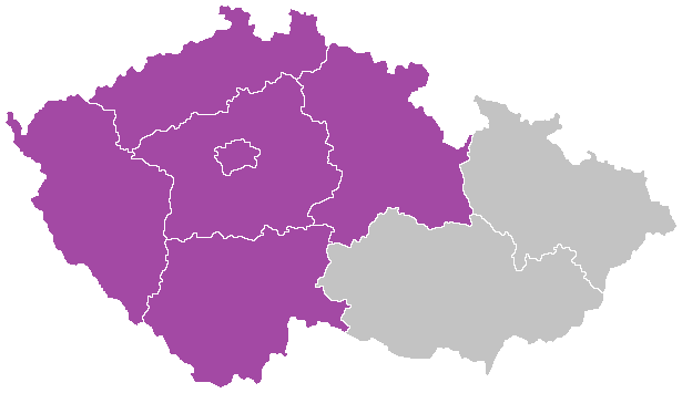 District of High court in Praha